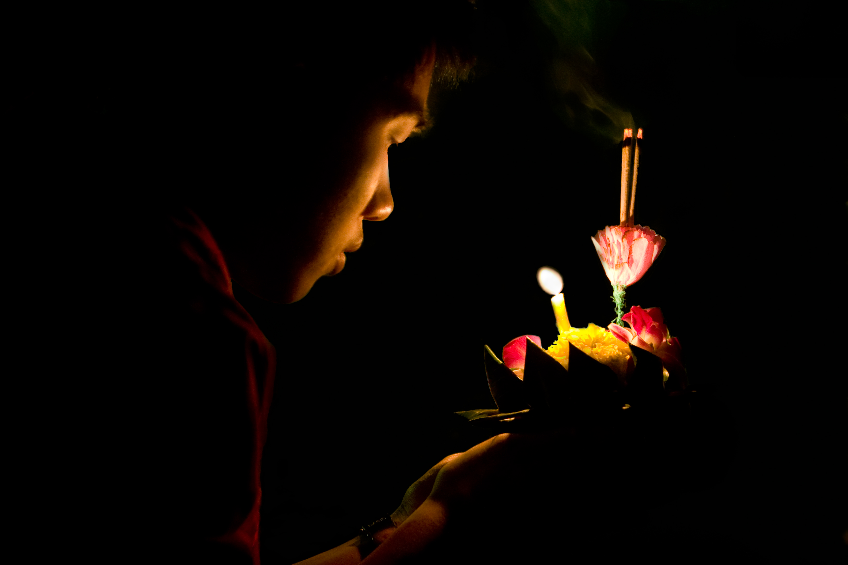 Celebrating Loy Krathong in Lumpini Park, Bangkok, Thailand